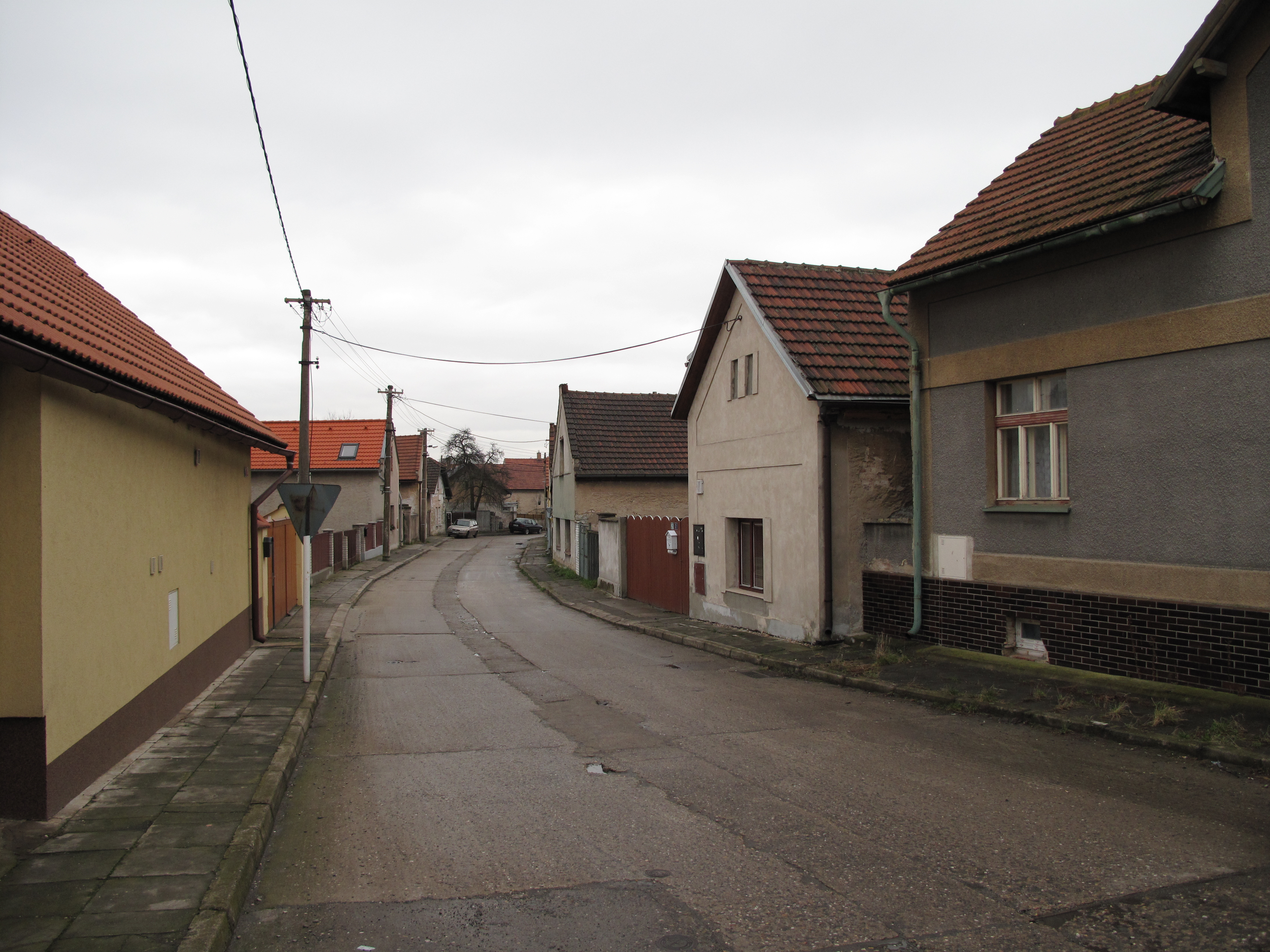 Concrete road in Čečelice village, Mělník District, Czech Republic.